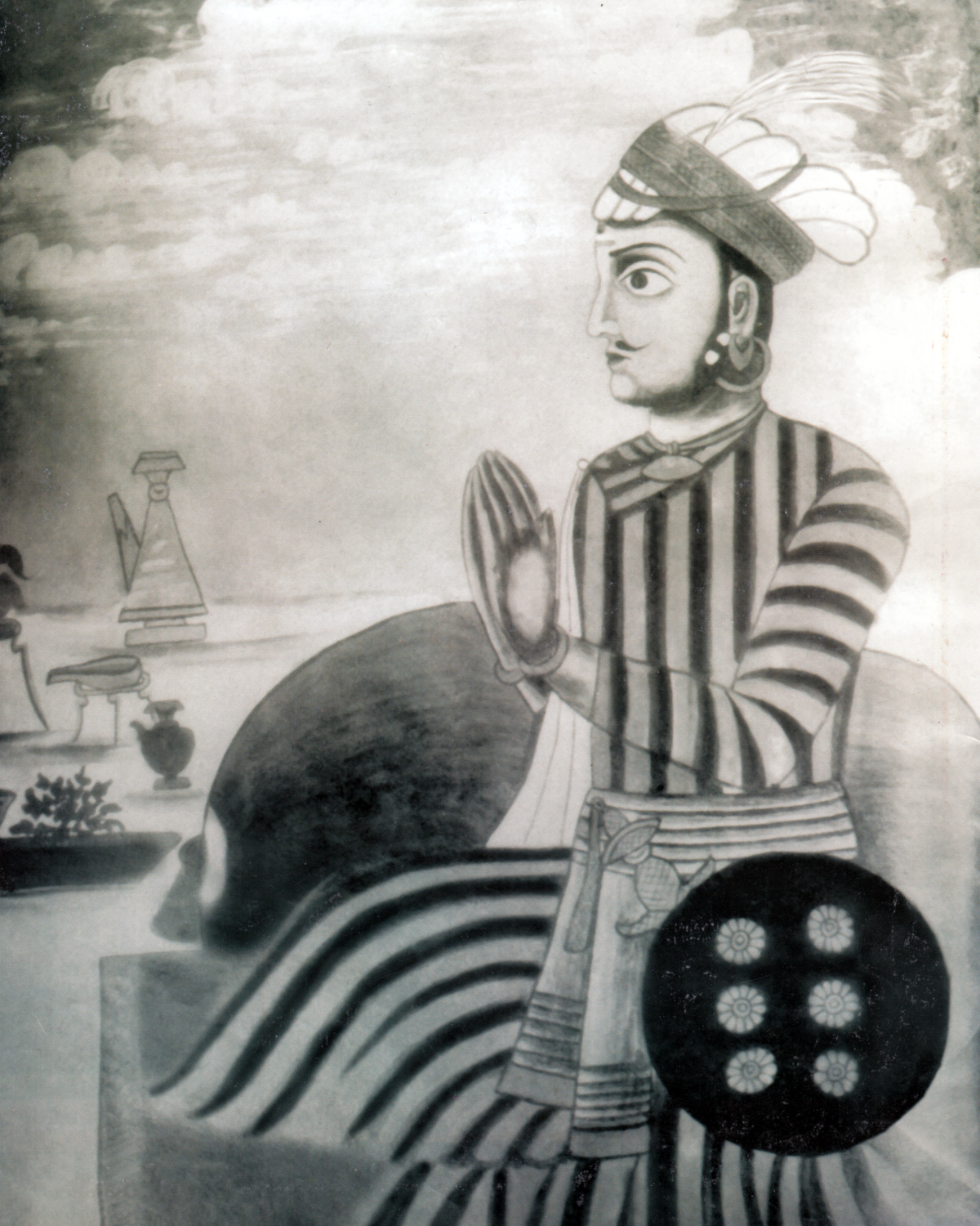 Portrait of Jaya Prakash Malla, the last king of Kathmandu who reigned 1736-1768 AD. Jaya Pand again from 1750–1768. He also ruled Lalitpur from 1760–1761 and again 1763–1764.